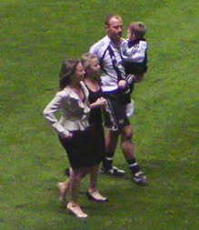 Alan Shearer and his family at his Testimonial Match